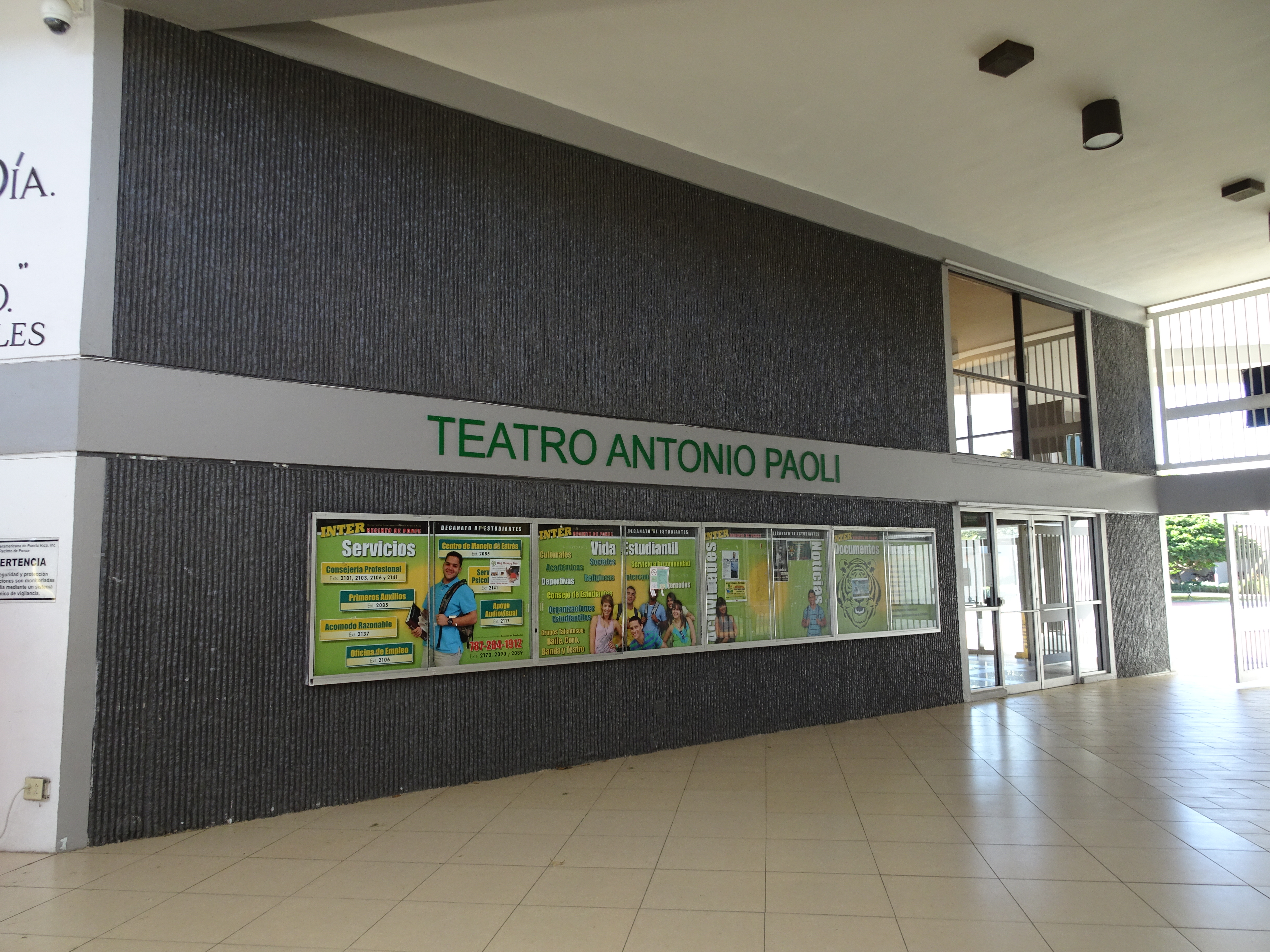 Teatro Antonio Paoli, Universidad Interamericana de Puerto Rico en Ponce, Bo. Sabanetas, Ponce, PR, mirando al sureste (DSC02058)